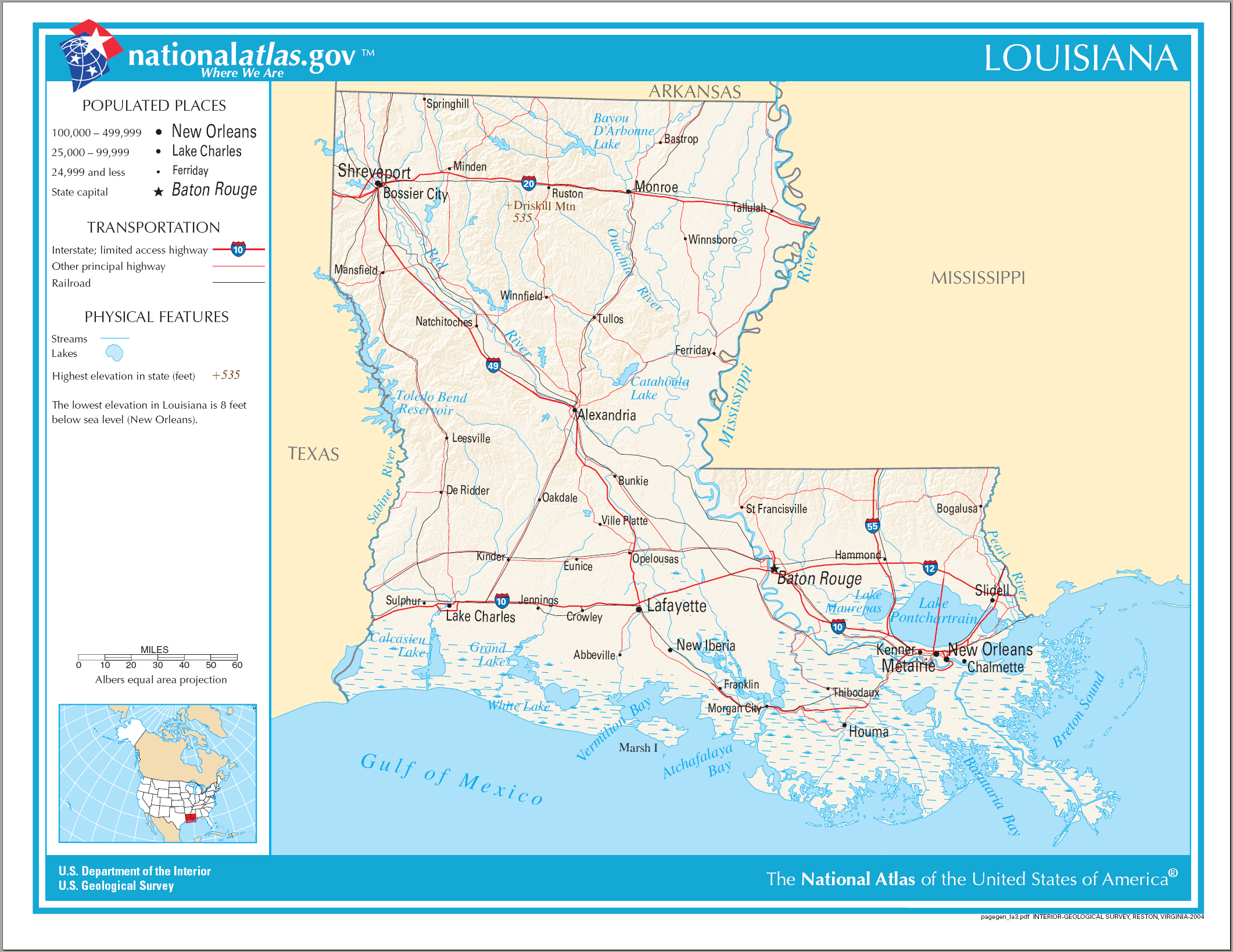 Map of Louisiana